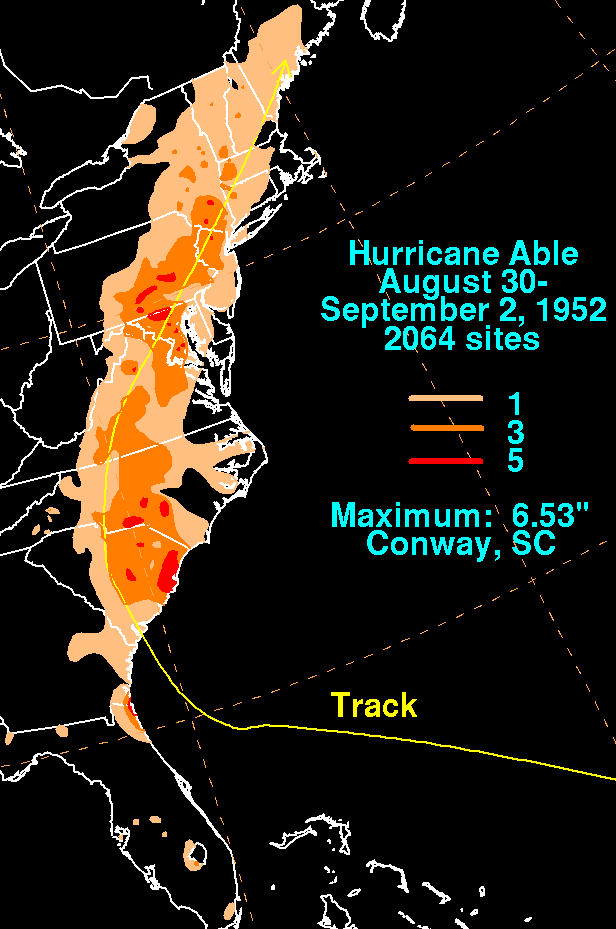 Storm total rainfall map of Hurricane Able during August and September 1952.